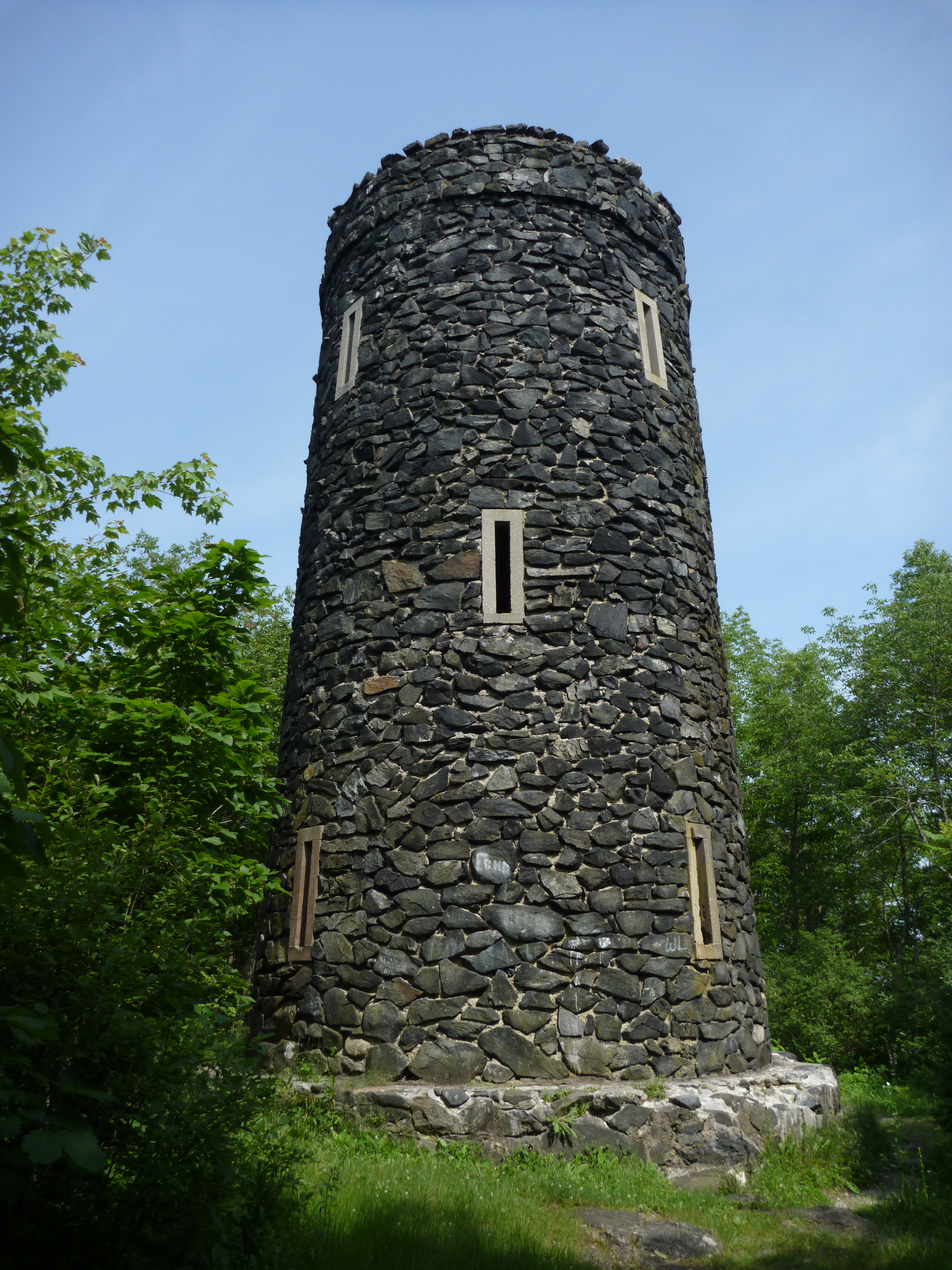 Mount Tom Tower, Off U.S. Route 202 southeast of Woodville, Mount Tom State Park Litchfield, Morris, and Washington